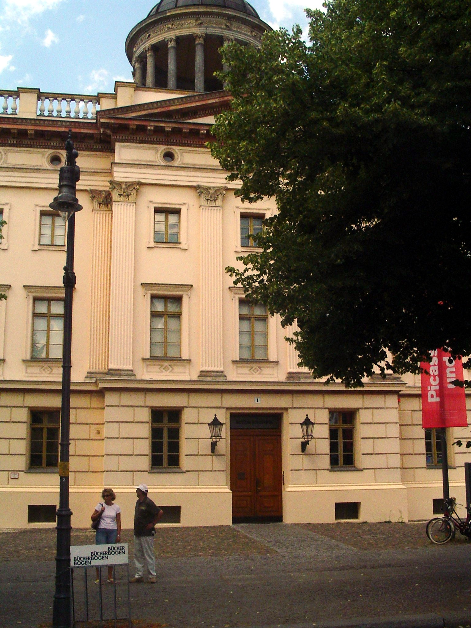 Berggruen-Museum in Berlin, Germany Berggruen Museum Native nameSammlung BerggruenParent institutionBerlin State MuseumsLocationBerlin, GermanyCoordinates52° 31′ 09.12″ N, 13° 17′ 43.08″ E Established1996Web page control : Q641630 VIAF: 157011748 ISNI: 0000 0001 0746 9440 LCCN: no2007152484 GND: 10150182-1 WorldCat institution QS:P195,Q641630